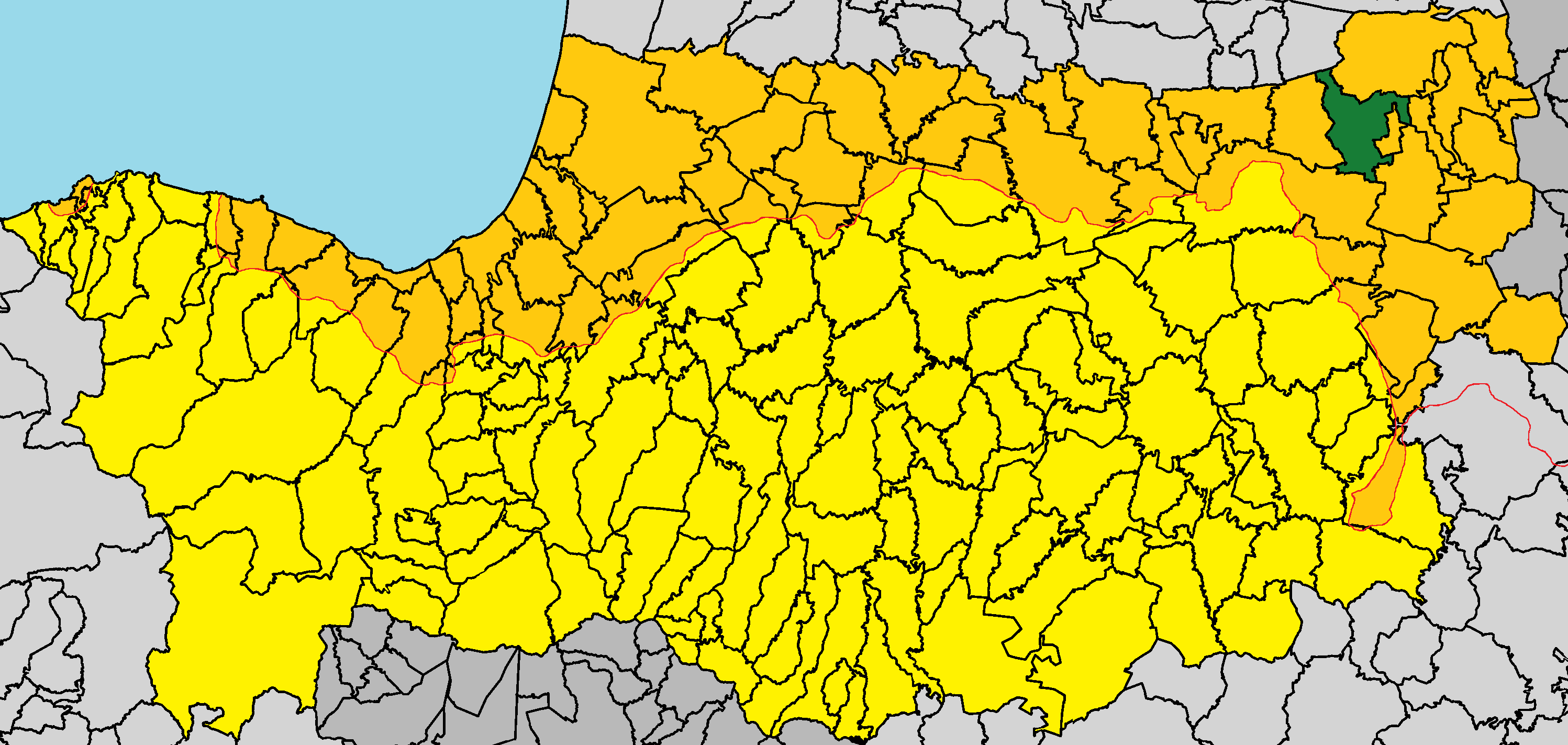 Neo Chorio in Nicosia District (de jure).